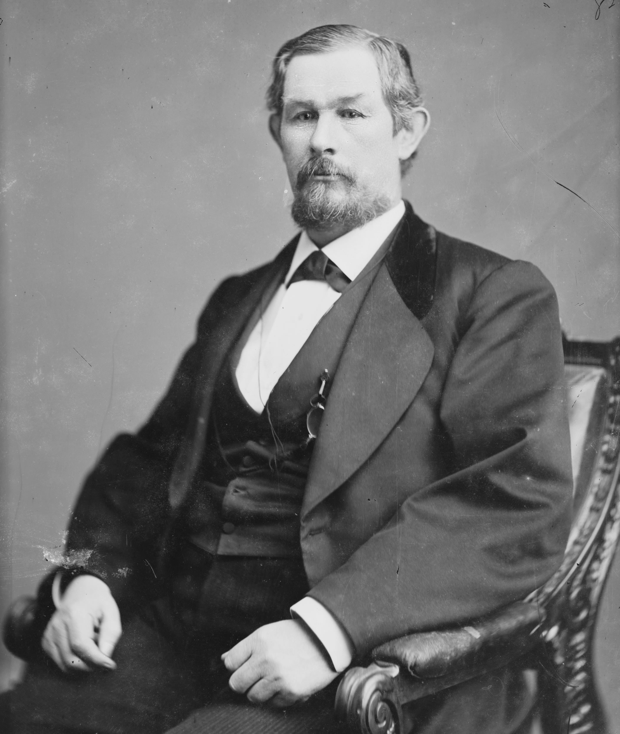 Eppa Hunton, former U.S. Senator from Virginia, Library of Congress. Converted and cropped from .tif file.